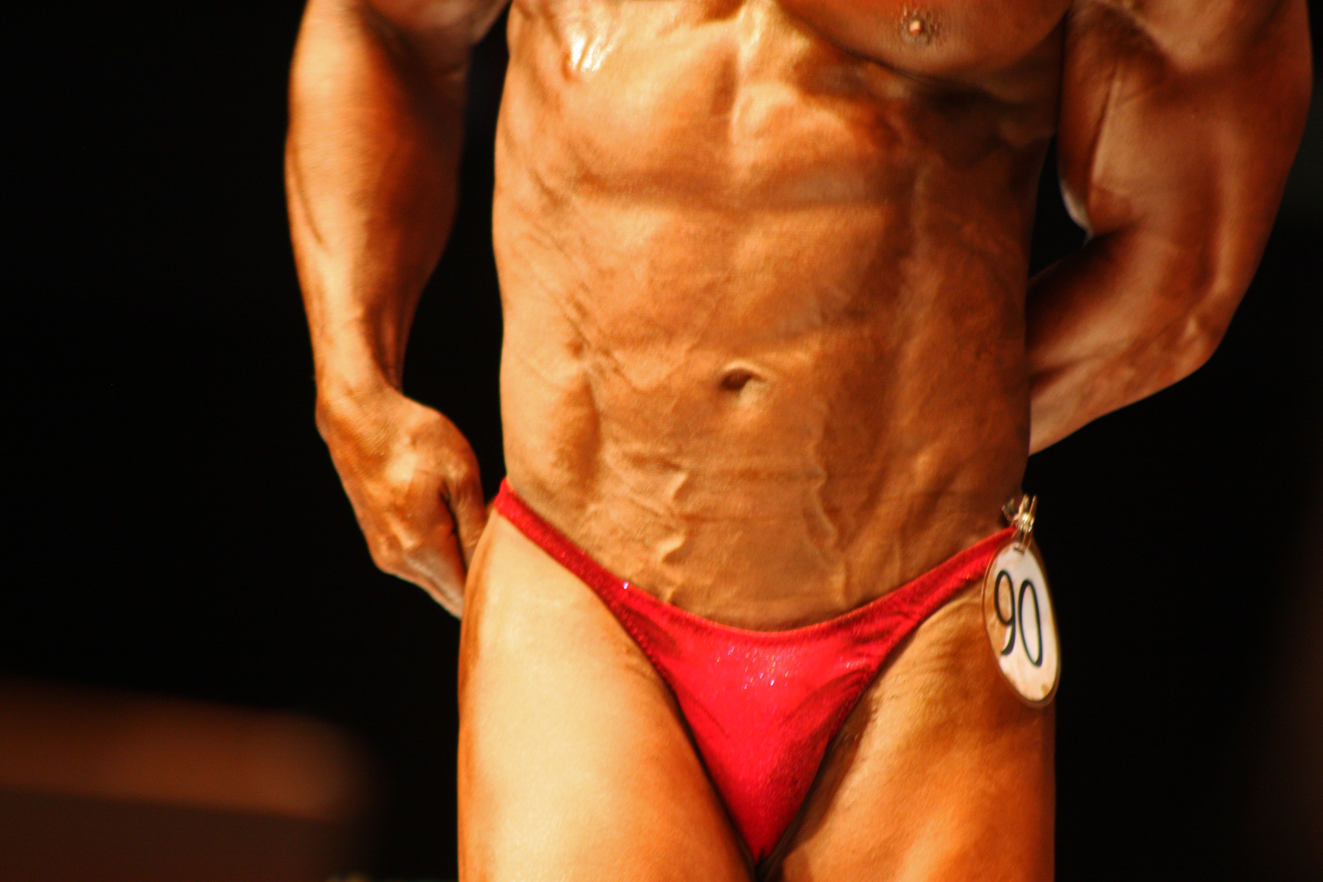 2012 Hong Kong Bodybuilding Championships & 3rd South China Invitational Championships 2012 全港健美錦標賽 暨 華南地區健美邀請賽 I have a ton more pictures from the HK Bodybuilding Campionships, so if you competed, get in touch with me as I may have taken your picture.